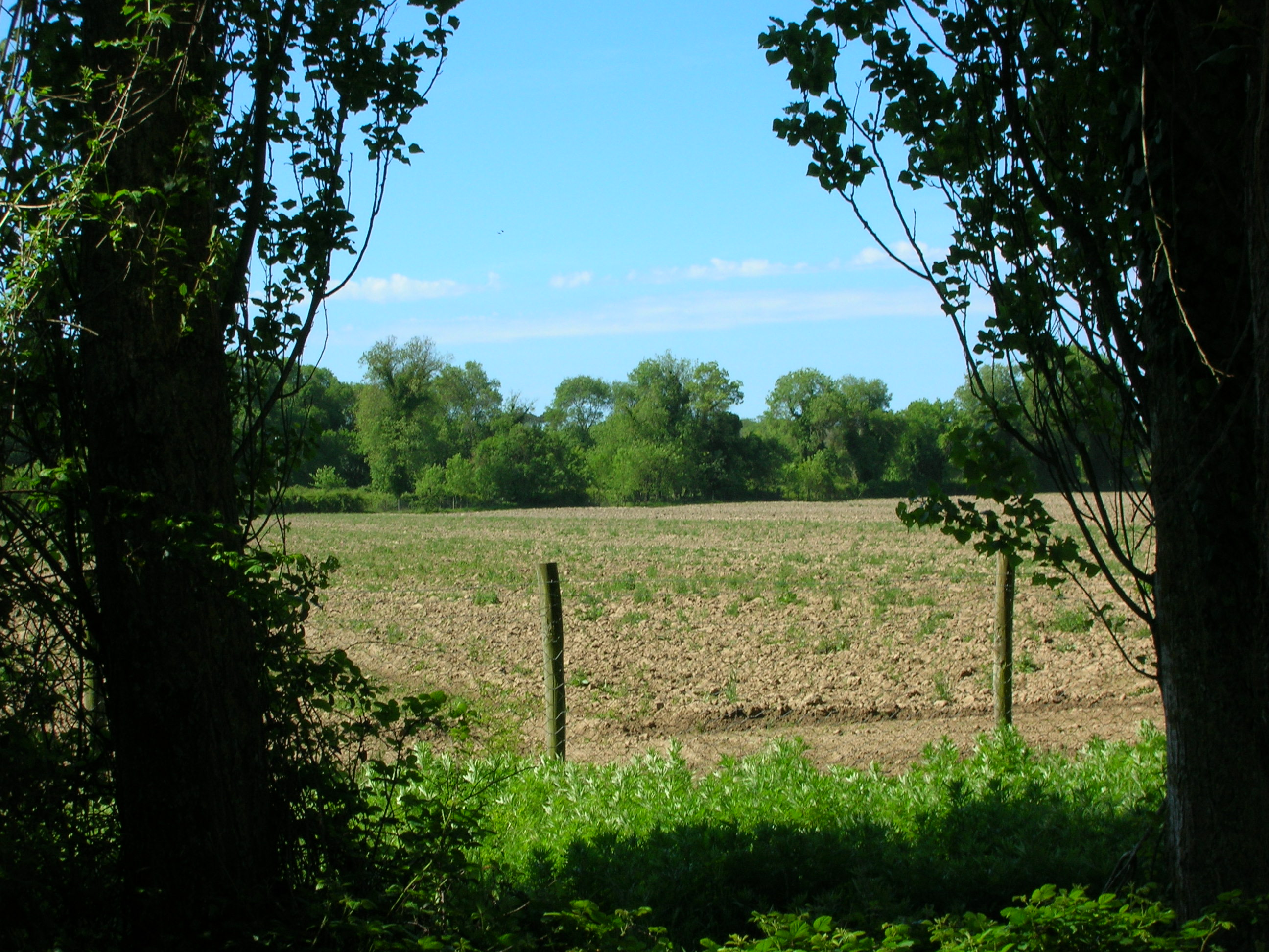 Fields in San Rossore, Pisa, Tuscany, Italy.